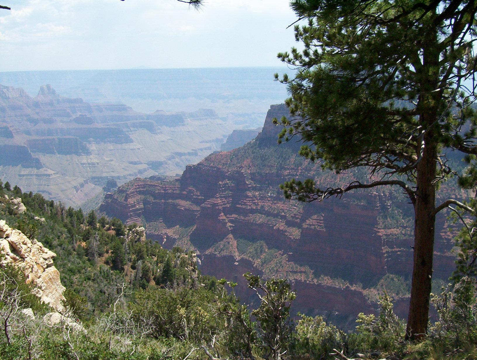 North Rim of the Grand Canyon by David Jolley 2005.